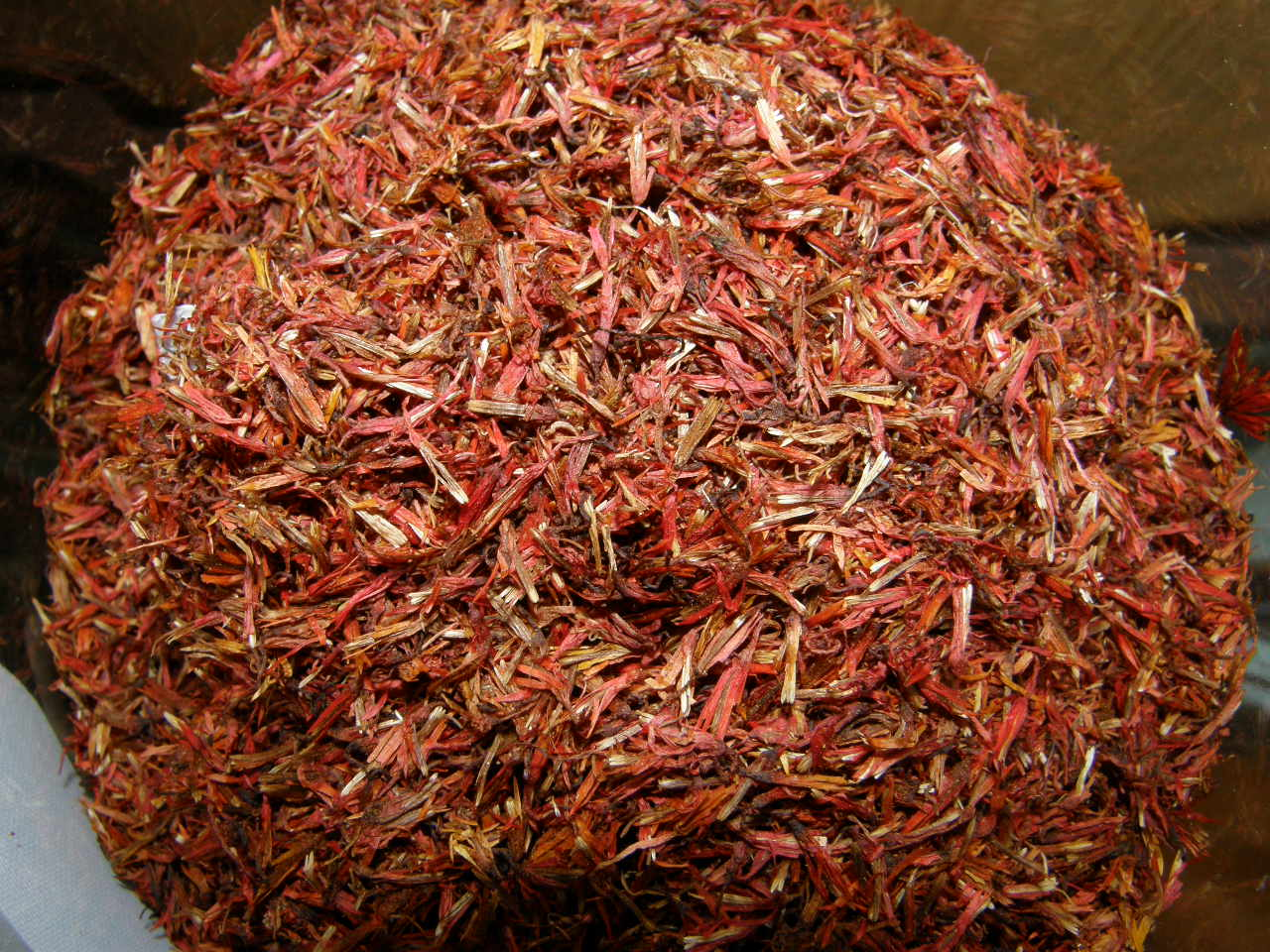 Safflower